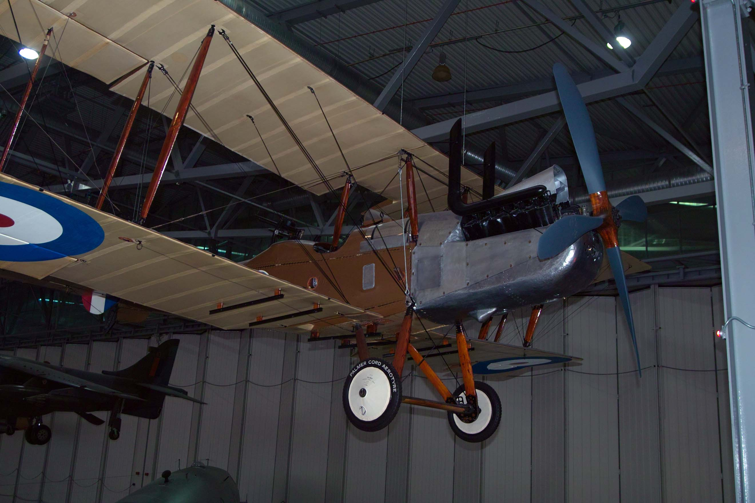 A Royal Aircraft Factory R.E.8 at Duxford museum